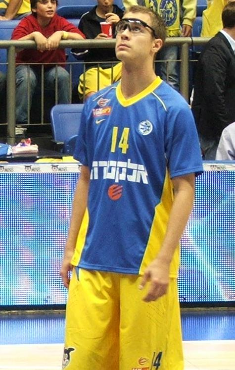 Maccabi Tel Aviv VS. Barak Netanya 31/10/11